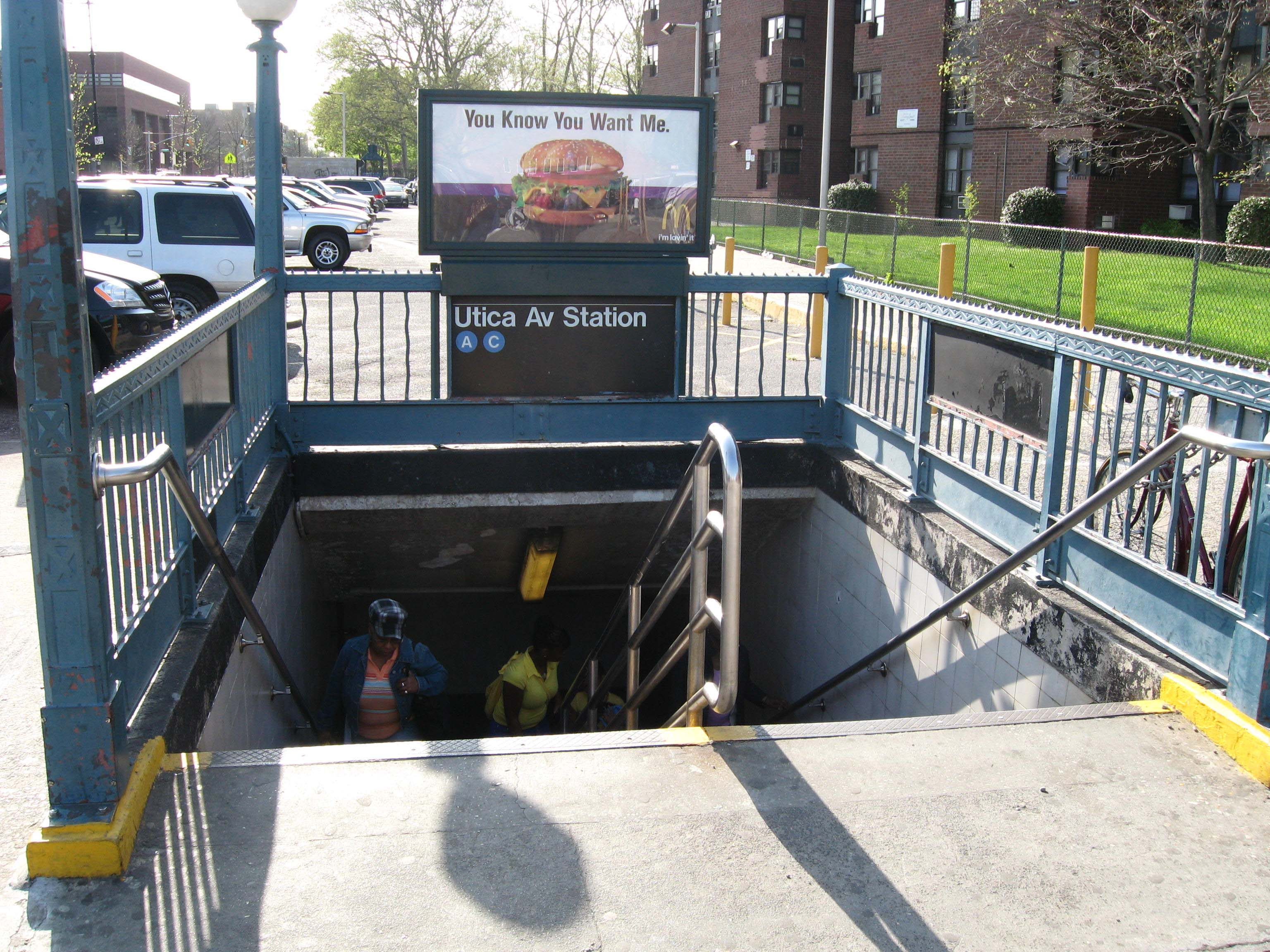 Looking west at Utica Avenue (IND Fulton Street Line) of IND on a sunny spring afternoon